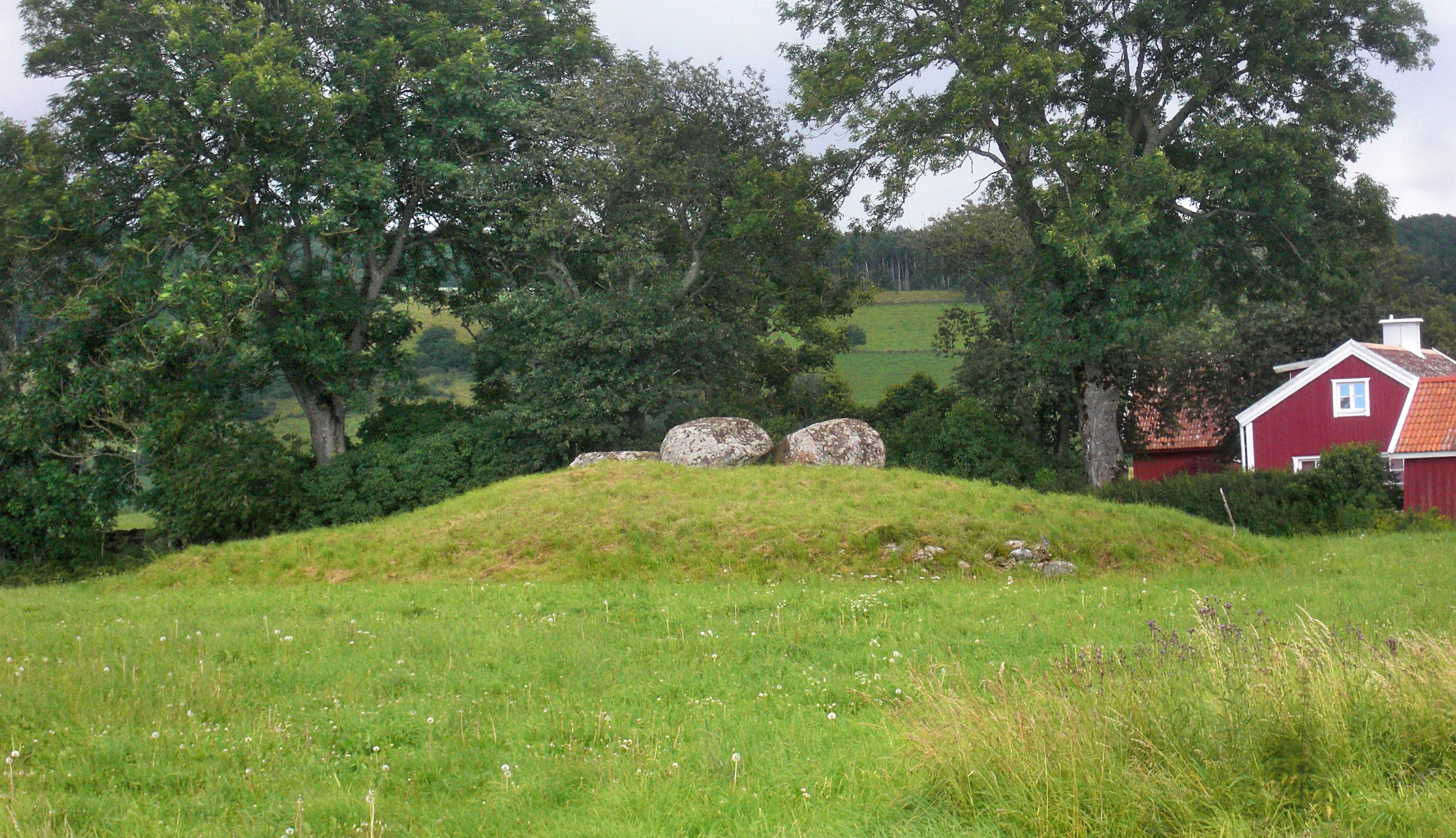 The Neolithic passage grave at Knaggården in Luttra (RAÄ number Luttra 16:1) in Falköping municipality, Västergötland, Sweden. The passage grave was excavated by Hildebrand in 1863.